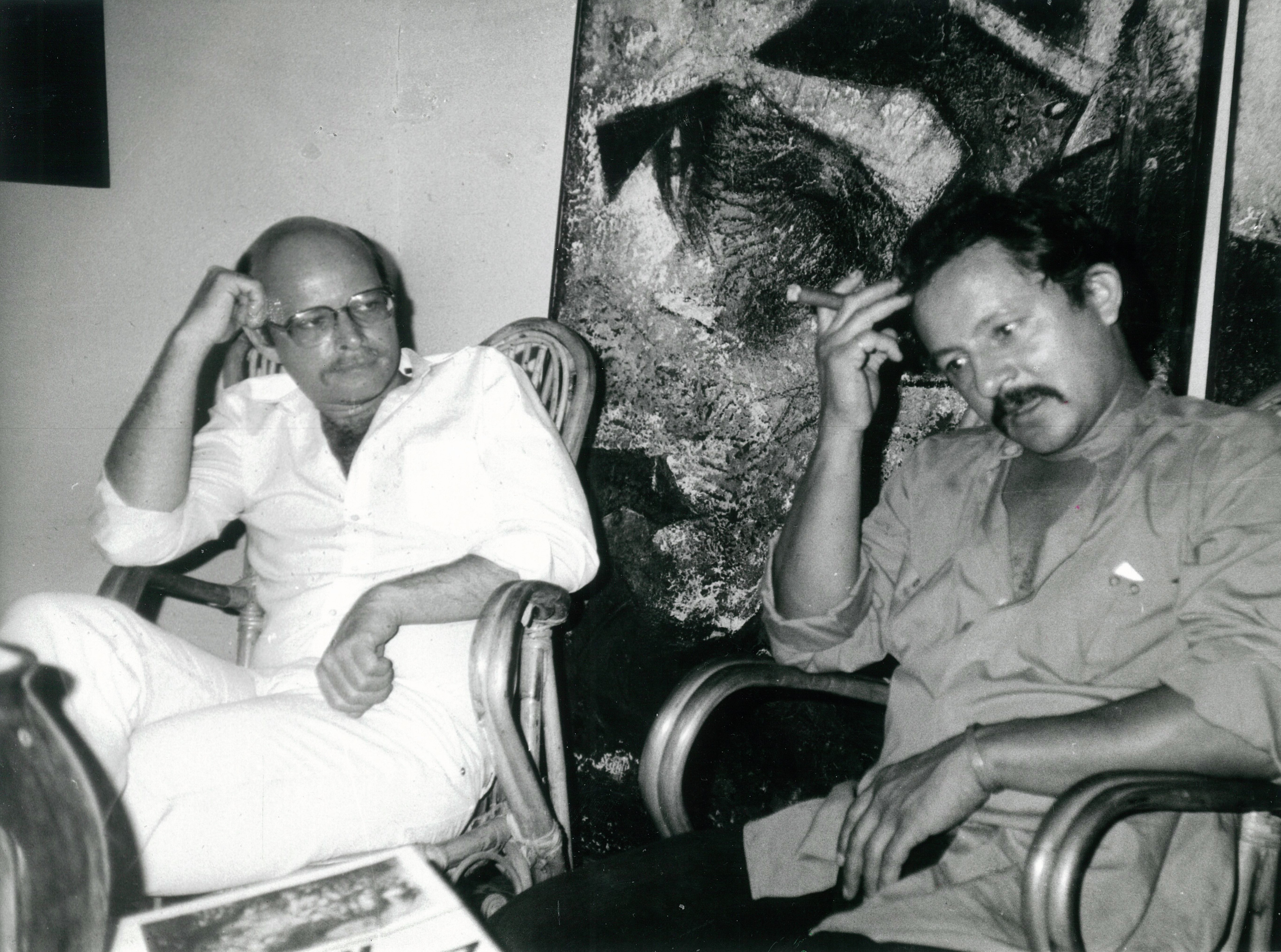 Jaromír Pelc (left), debate in The Frank Lloyd Wright Foundation, Scottsdale, Arizona, USA